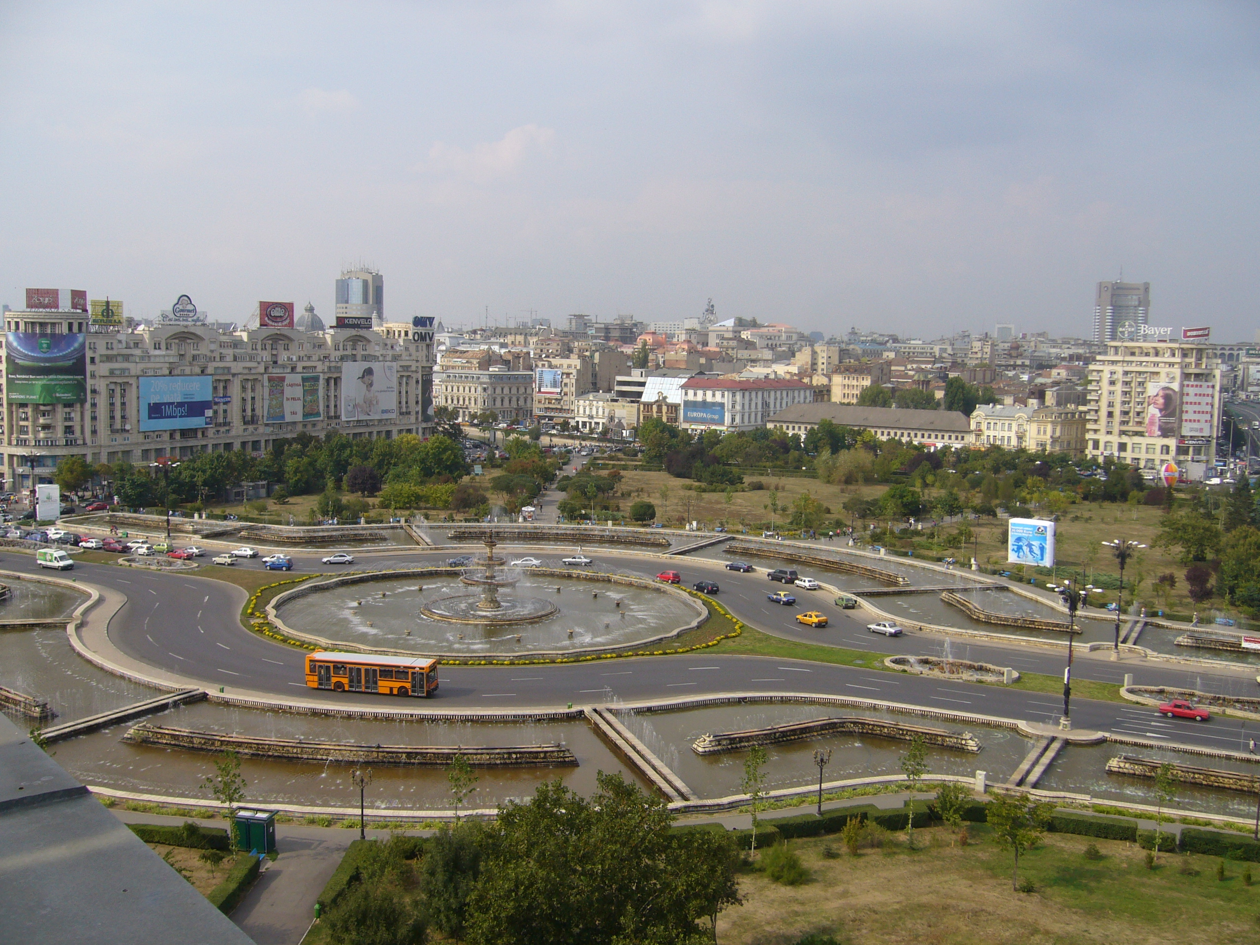 Piaţa Unirii or Unirii Square in Central Bucharest, Romania. (September 2006)